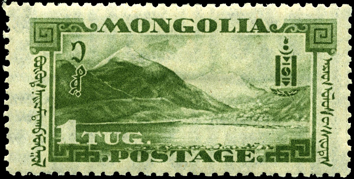 Mongolia 1t stamp of 1932. Dedicated to the 10th anniversary of the Mongolian Revolution of 1921, they are part of a set of 13 with values of 1, 2, 5, 10, 15, 20, 25, 40 and 50 mung. and 1, 3, 5, and 10 tugriks.